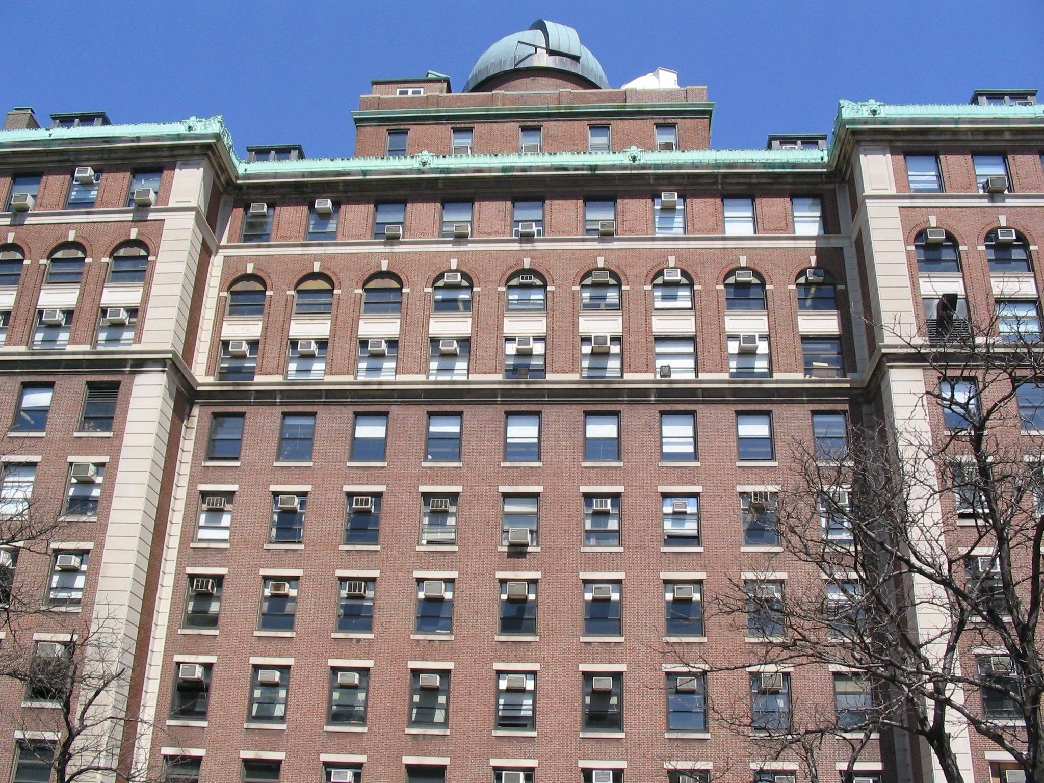 Pupin Hall, home of the Physics Department at Columbia University.